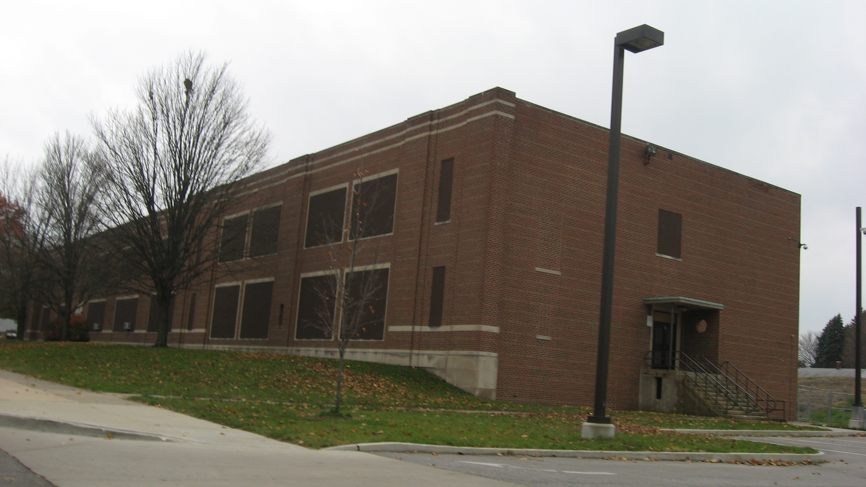 Eastern side and rear of the Marquette School, located at 1905 College Avenue in South Bend, Indiana, United States. Built in 1937, it is listed on the National Register of Historic Places.